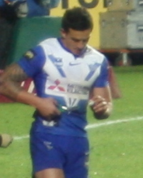 Picture of Sonny Bill